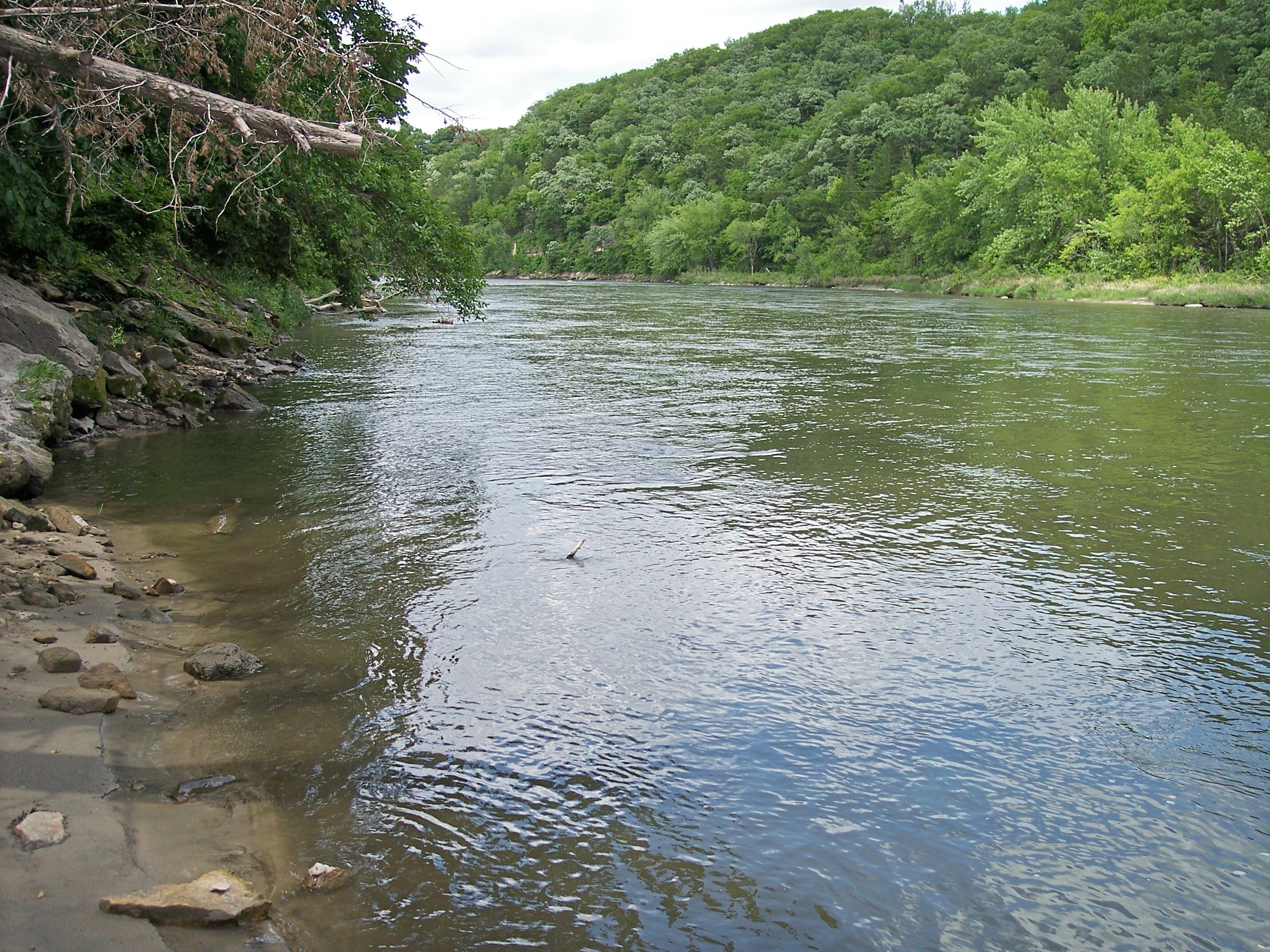 The Blue Earth River as viewed downstream near the base of Rapidan Dam in Rapidan Township, Minnesota